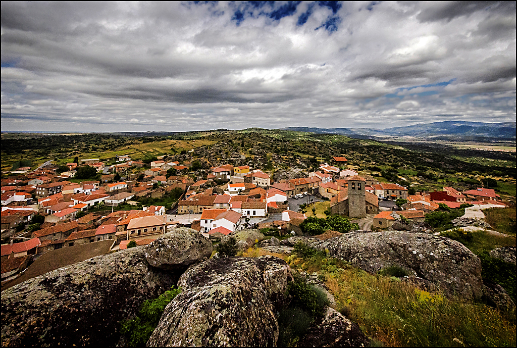 A view of the village, seen from the Castle of El Mirón precinct.